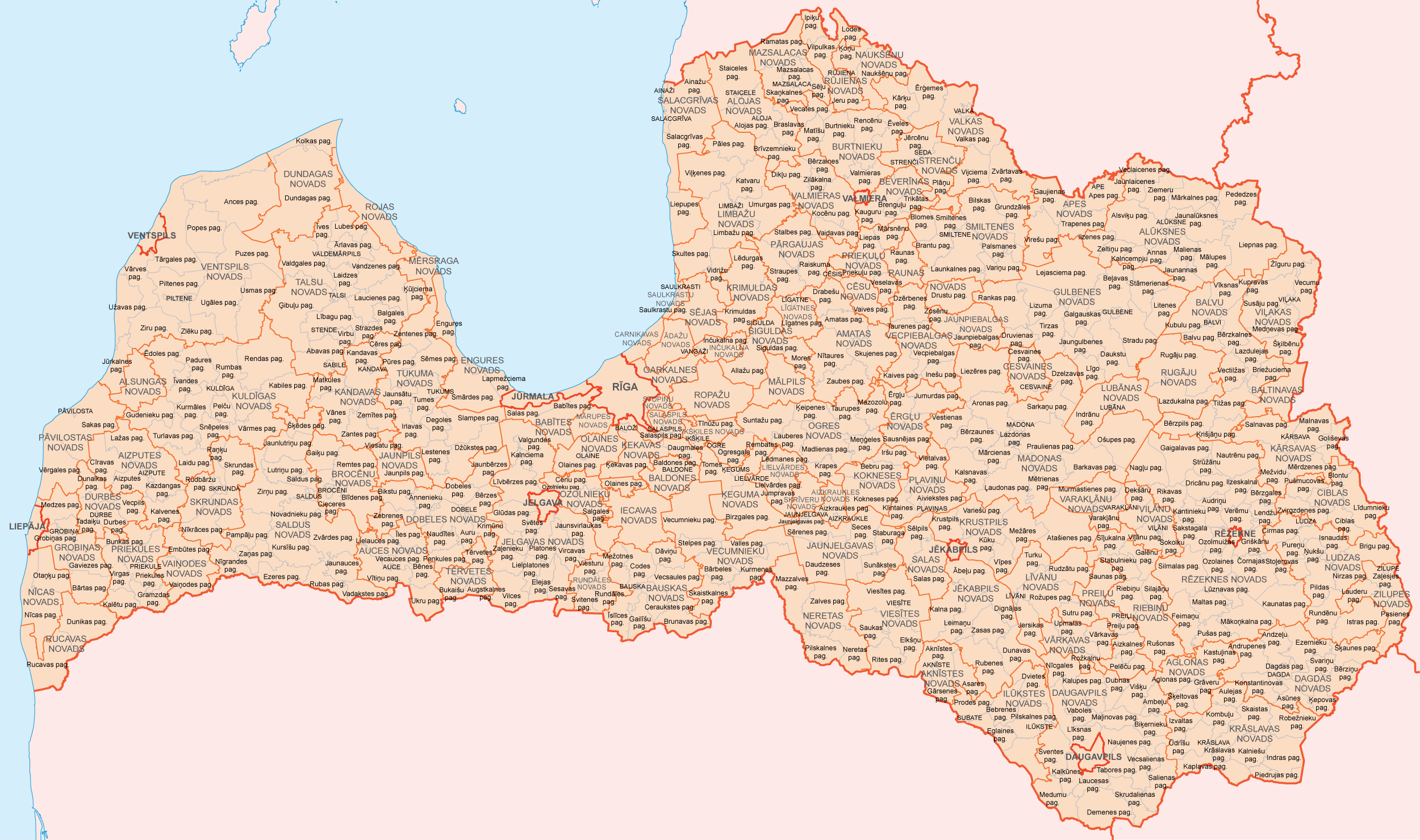 Administrative divisions of Latvia 2009